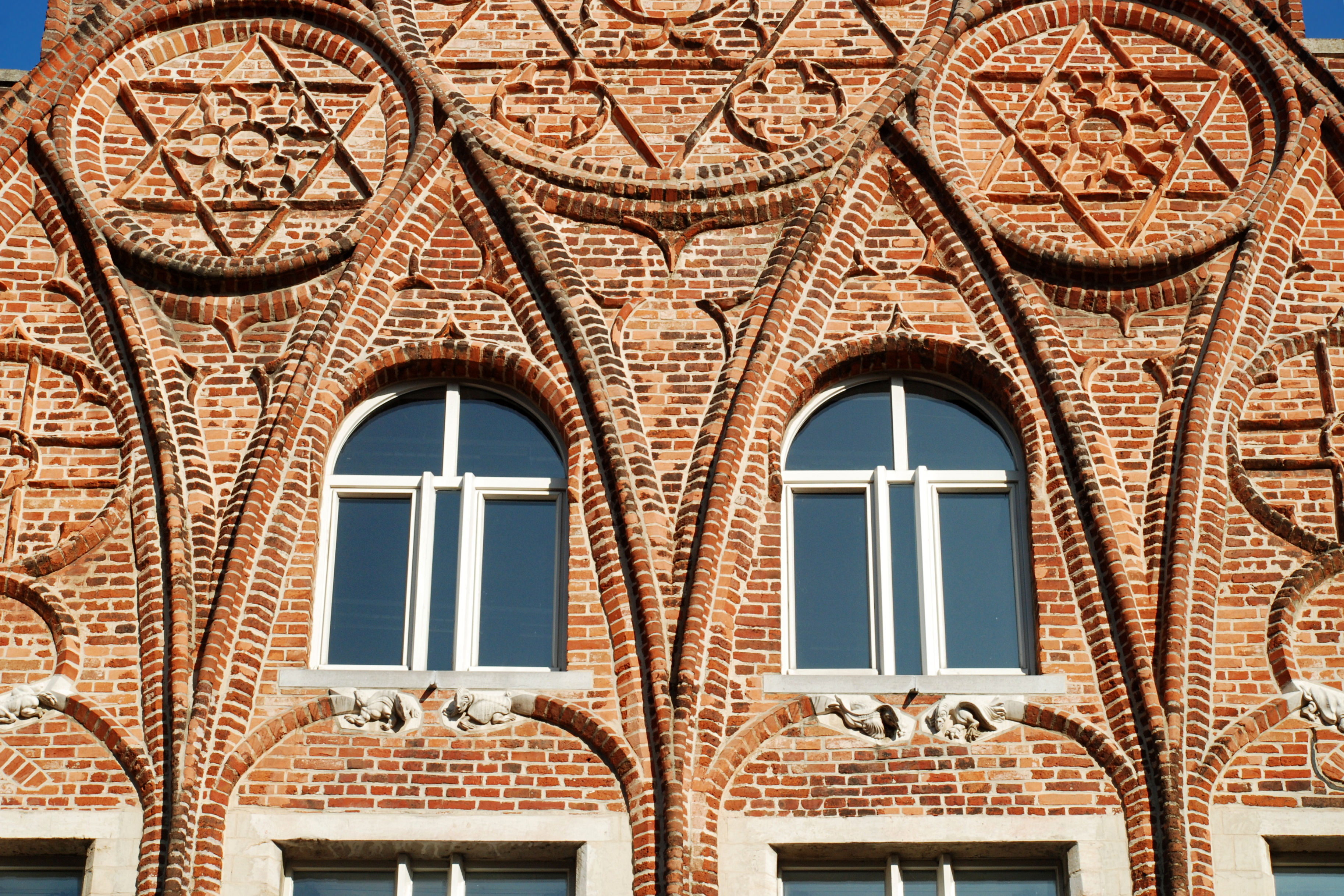 Belgium - Leuven - House van 't Sestich